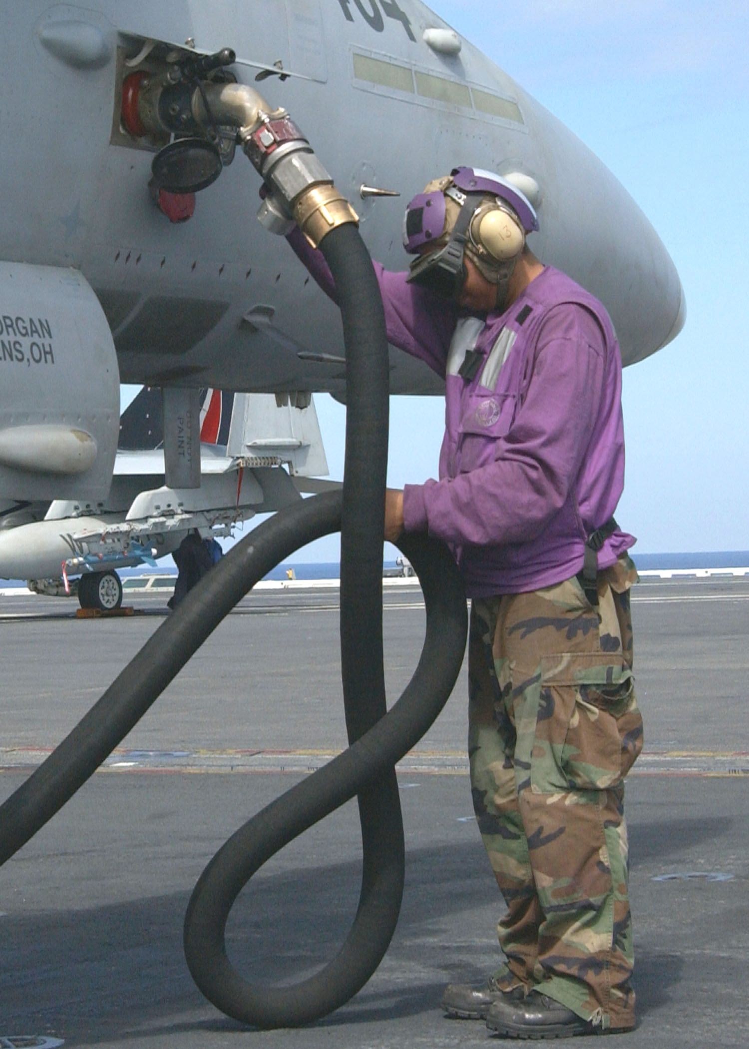 Refueling aboard USS George Washington (CVN-73).